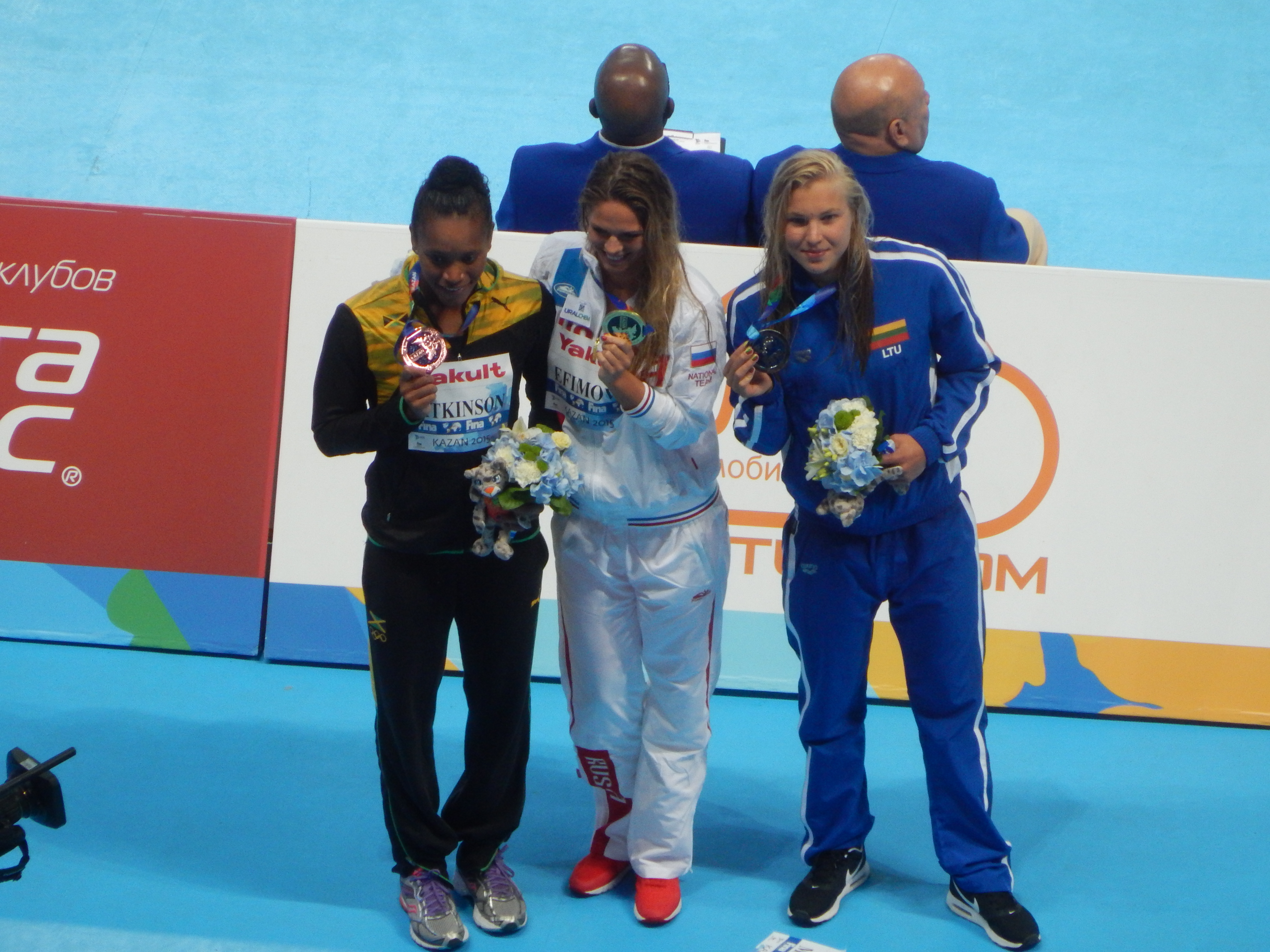 Medallists at the women's 100 metres breaststroke in Kazan 2015